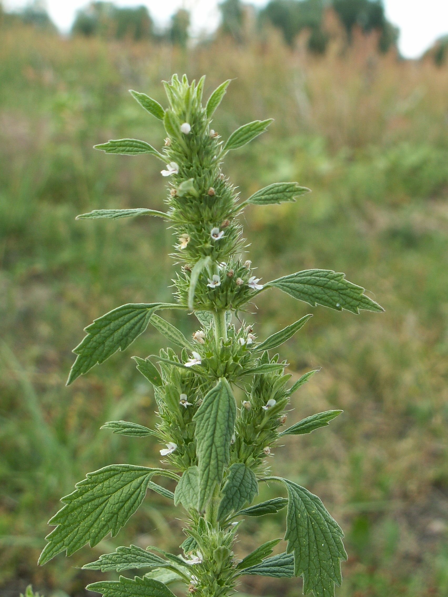 Leonurus marrubiastrum, wrong name of file